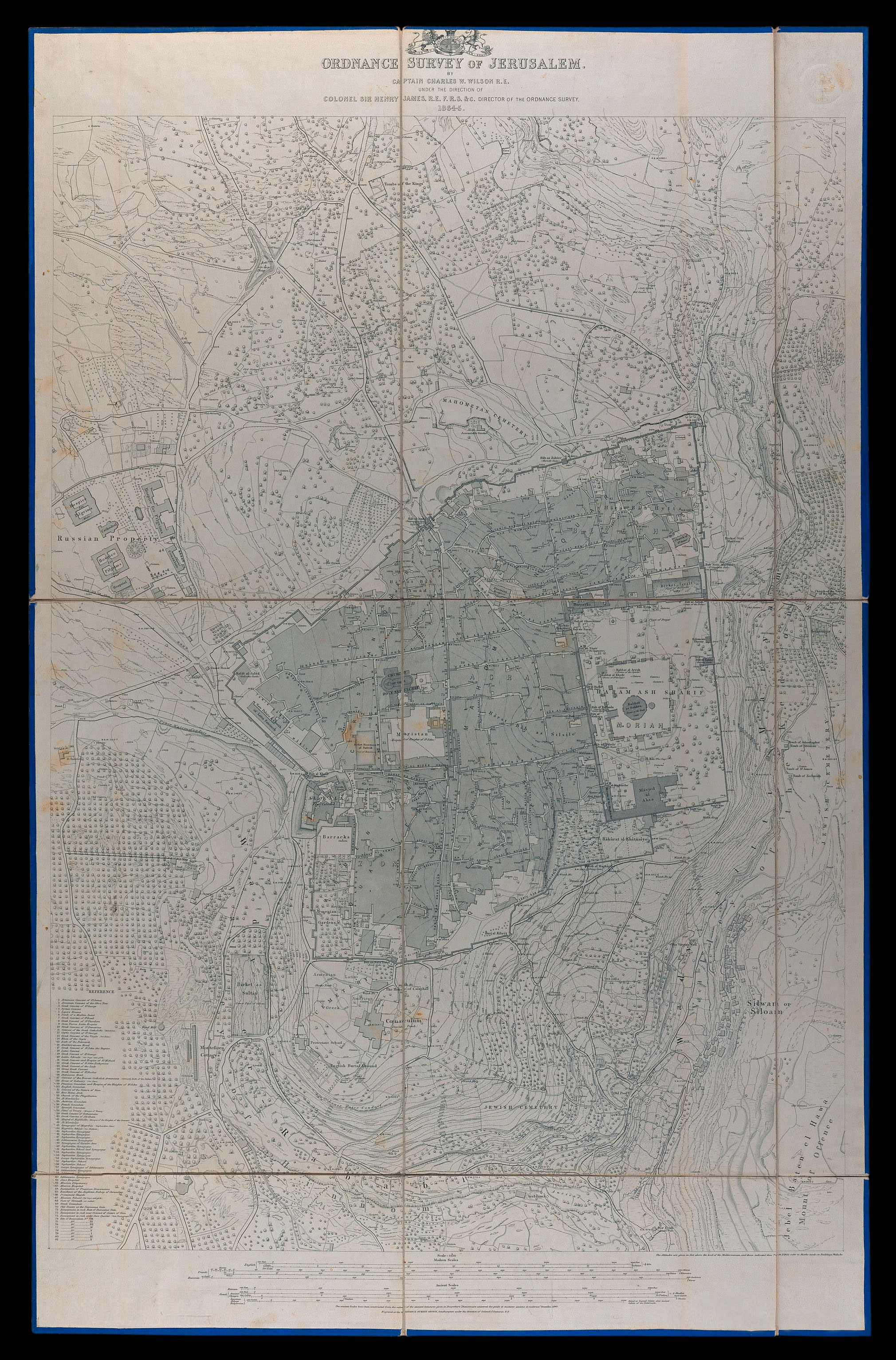 A large topographic detailed map of Jerusalem. One of the first measurment maps of the city. Prepared by Charles Wilson, as part of the British Ordnance Survey of Jerusalem, 1864-5.